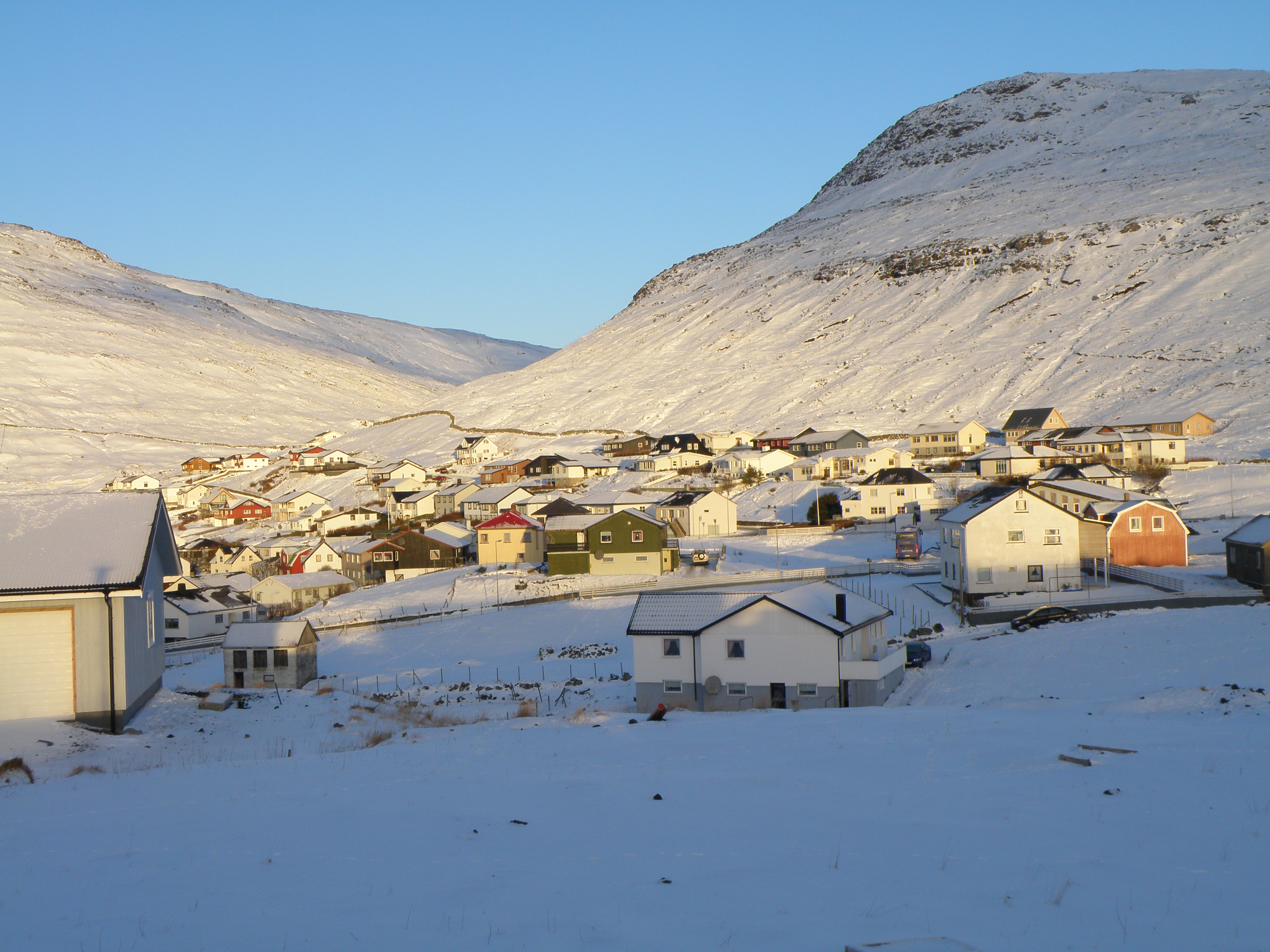 Sørvágur (Sorvagur) is a village on Vágar island in the Faroe Islands. Sørvágur is one of the three larger villages on Vágar. It is located just west of Vágar Airport, which is the only international airport in the Faroe Islands. This is the eastern part of the village. The population of Sørvágur is around 1000. This photo was taken on Christmas Day in 2010. Føroyskt: Sørvágur er ein av størru bygdunum í Vágunum og tann vestasta av teimum. Smáu bygdirnar Bøur og Gásadalur eru vestanfyri Sørvág ella í ein útnyrðing av Sørvági. Mykines sæst úr Sørvági, tó ikki á hesi myndini. Umleið 1000 fólk búgva í Sørvági.